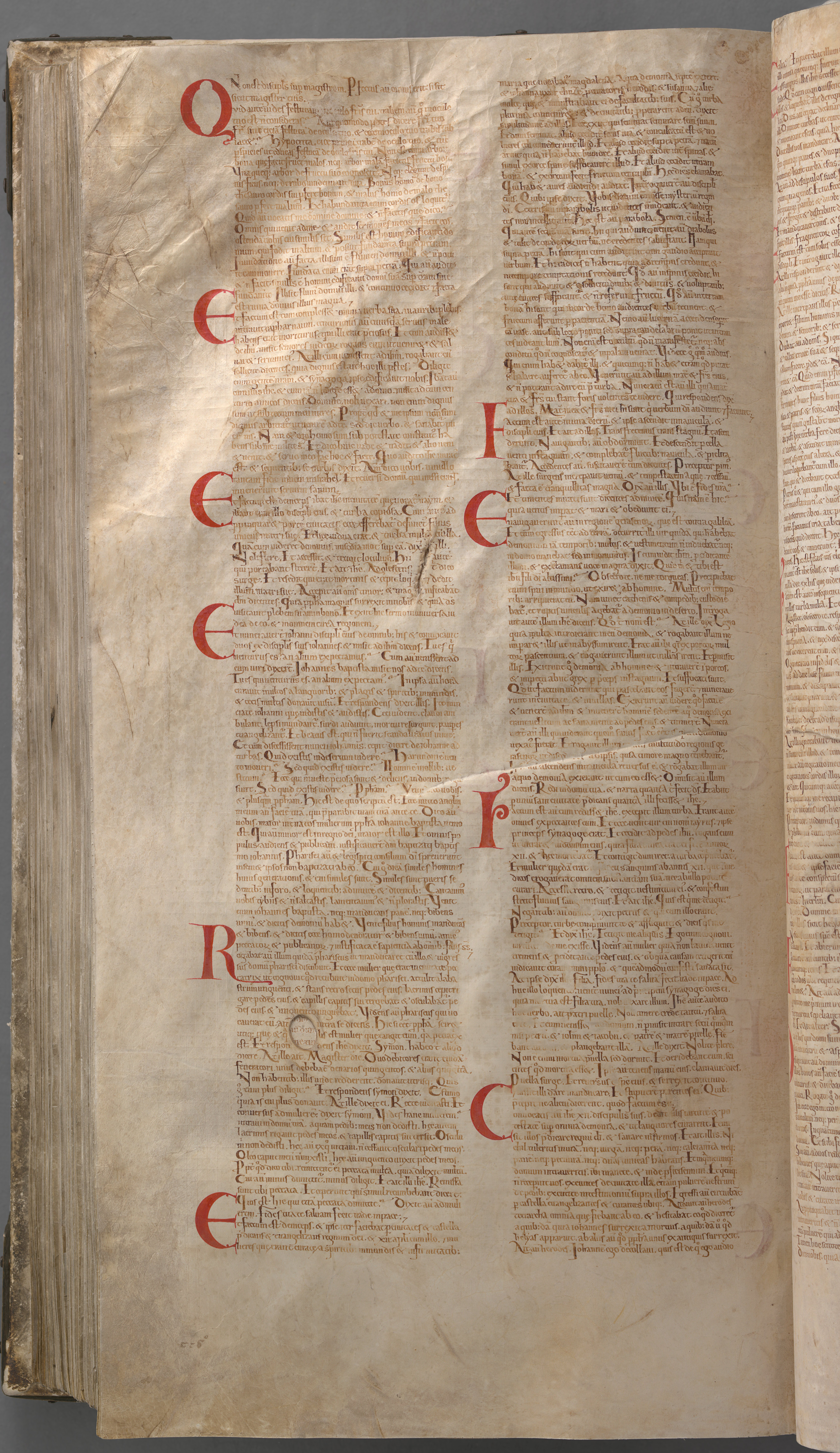 Giant Book) is the largest extant medieval manuscript in the world. It is also known as the Devil's Bible because of a large illustration of the devil on the inside and the legend surrounding its creation. It is thought to have been created in the early 13th century in the Benedictine monastery of Podlažice in Bohemia (modern Czech Republic). It contains the Vulgate Bible as well as many historical documents all written in Latin. During the Thirty Years' War in 1648, the entire collection was taken by the Swedish army as plunder, and now it is preserved at the National Library of Sweden in Stockholm, though it is not normally on display.